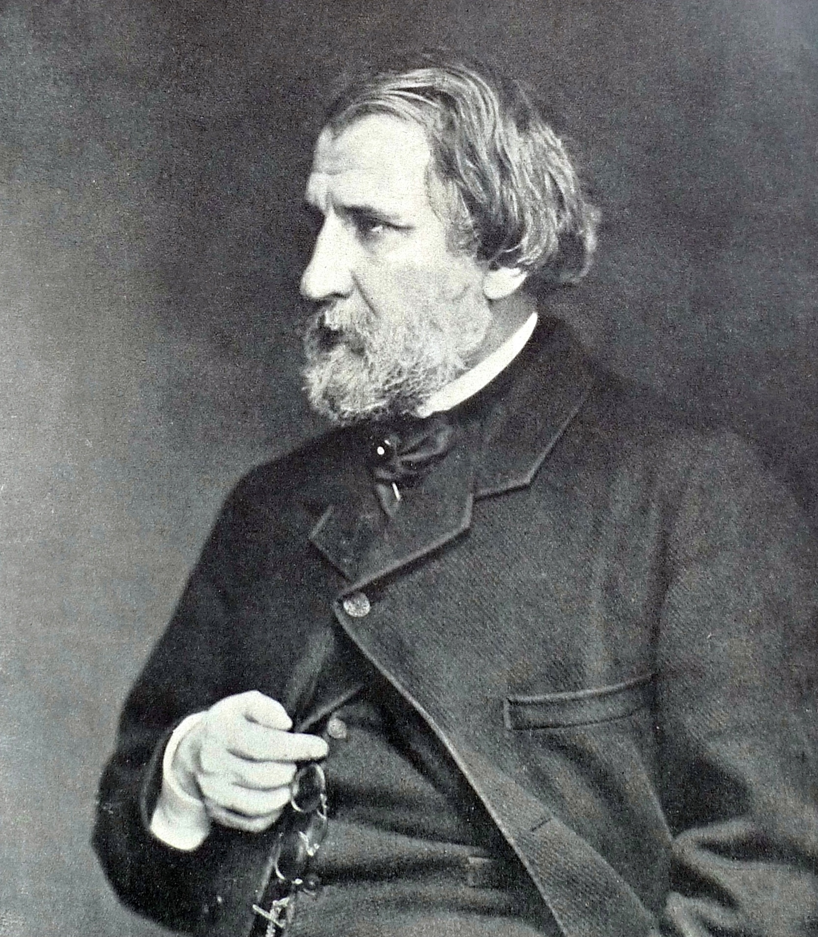 Photo of Ivan Turgenev